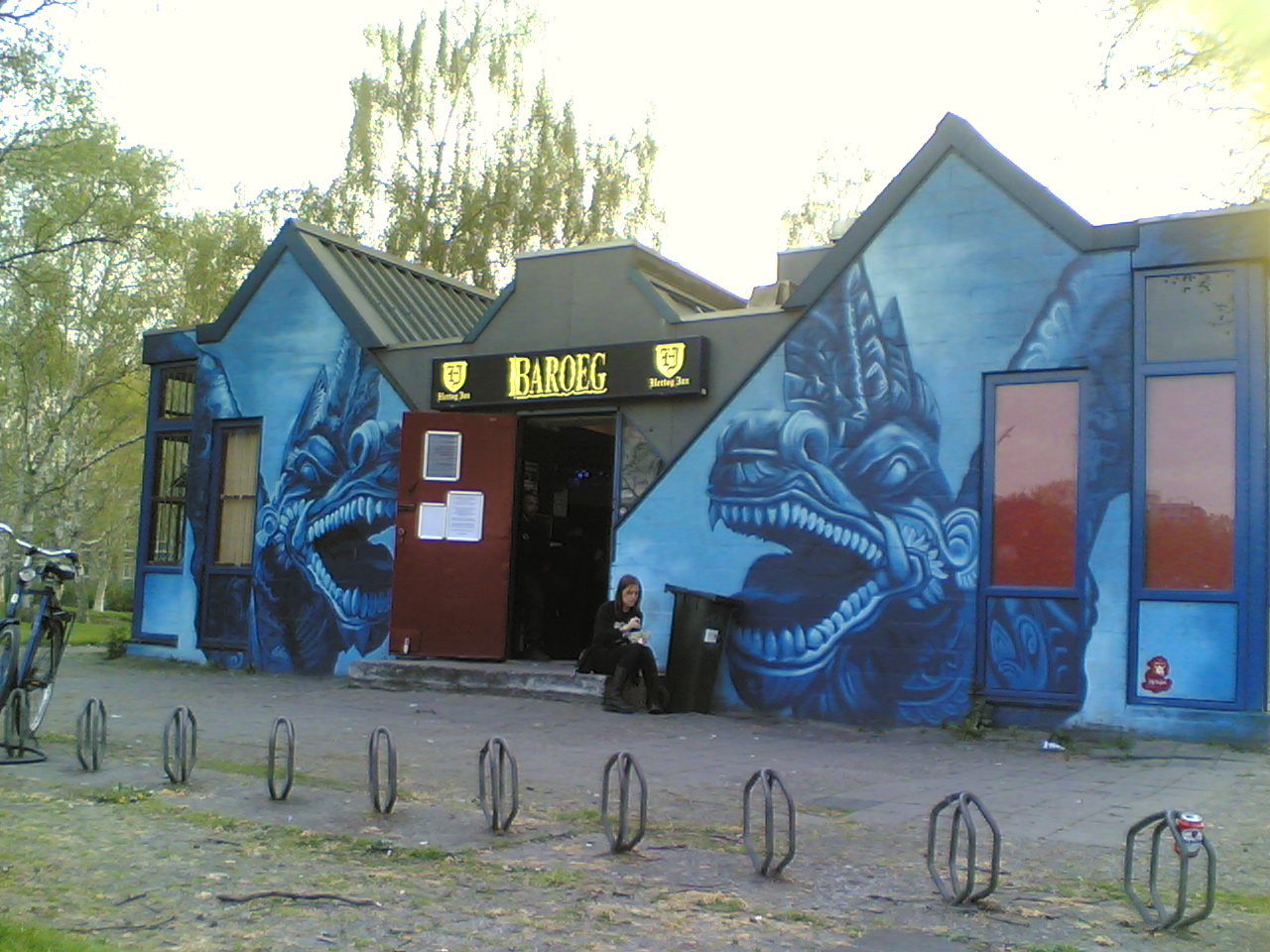 The Baroeg club in Rotterdam, The Netherlands.